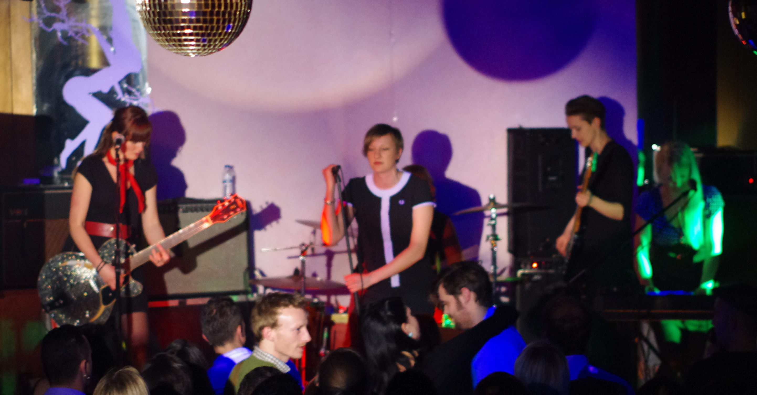 Norwegian Band The Launderettes playing the States Club, Coimbra, 2011-04-03